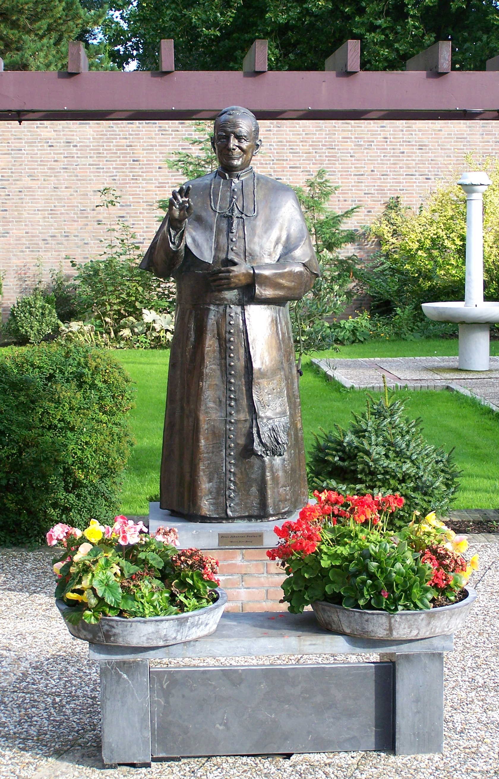 Statue of Pope John Paul II "Do not fear", made by Mario Succurro in 2006. Donated to the Dionysiuschurch in Heerhugowaard by the Italian leatherfactories in the San Croce sull' Arno region (Toscany).